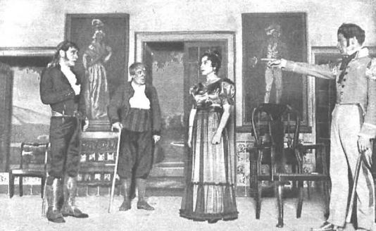 Representación de la obra de teatro La Duquesa de Benamejí de Manuel y Antonio Machado